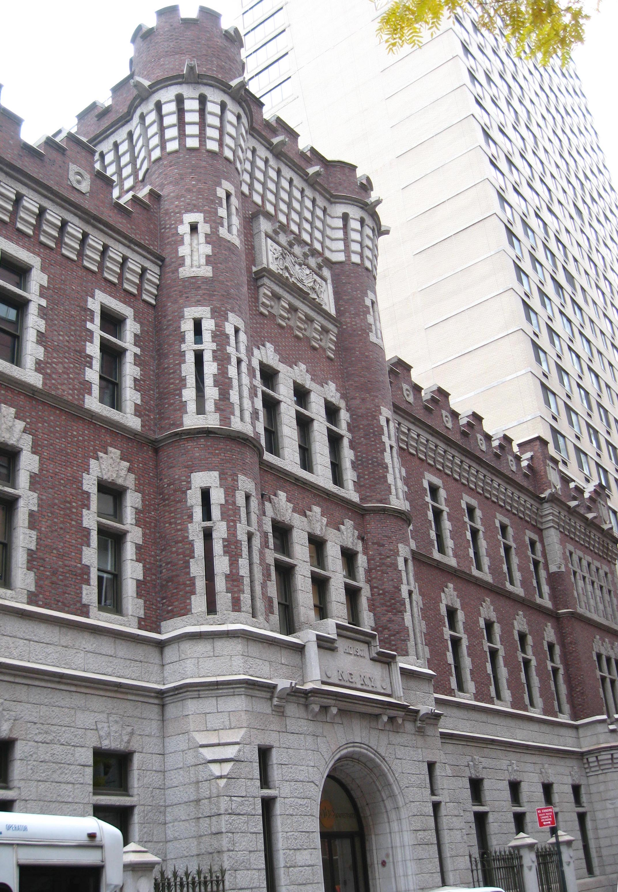 Looking west across en:66th Street (Manhattan) at ABC building, originally First Battery of New York National Guard, on a cloudy afternoon.